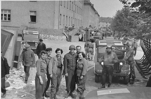 American medical personnel stand in front of a school that has been converted into a hospital for concentration camp survivors from Langenstein-Zwieberge. Among those pictured is Francis A. Speer (third from the left, facing the camera).